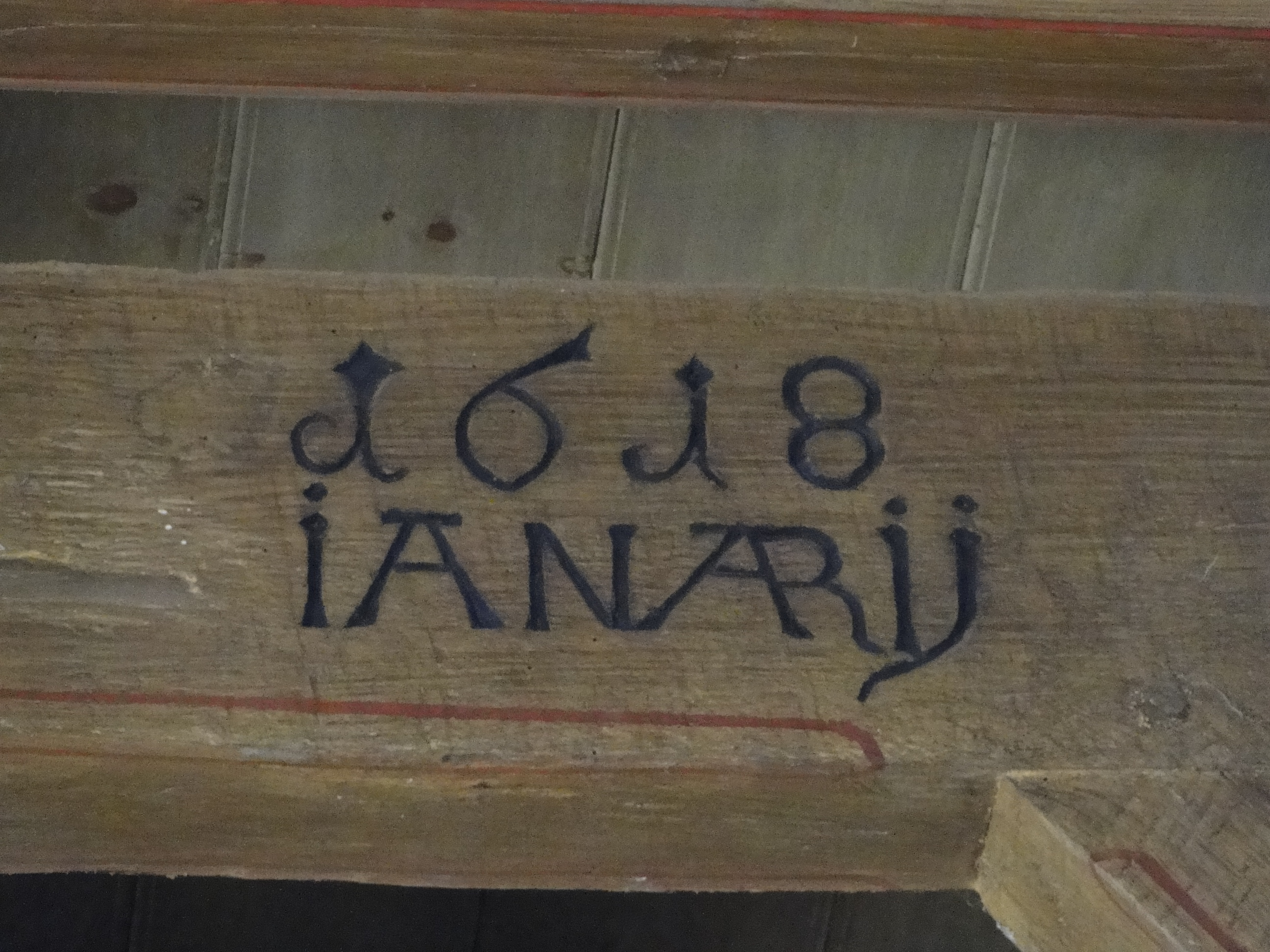 Church in Woosten, district Ludwigslust-Parchim, Mecklenburg-Vorpommern, Germany